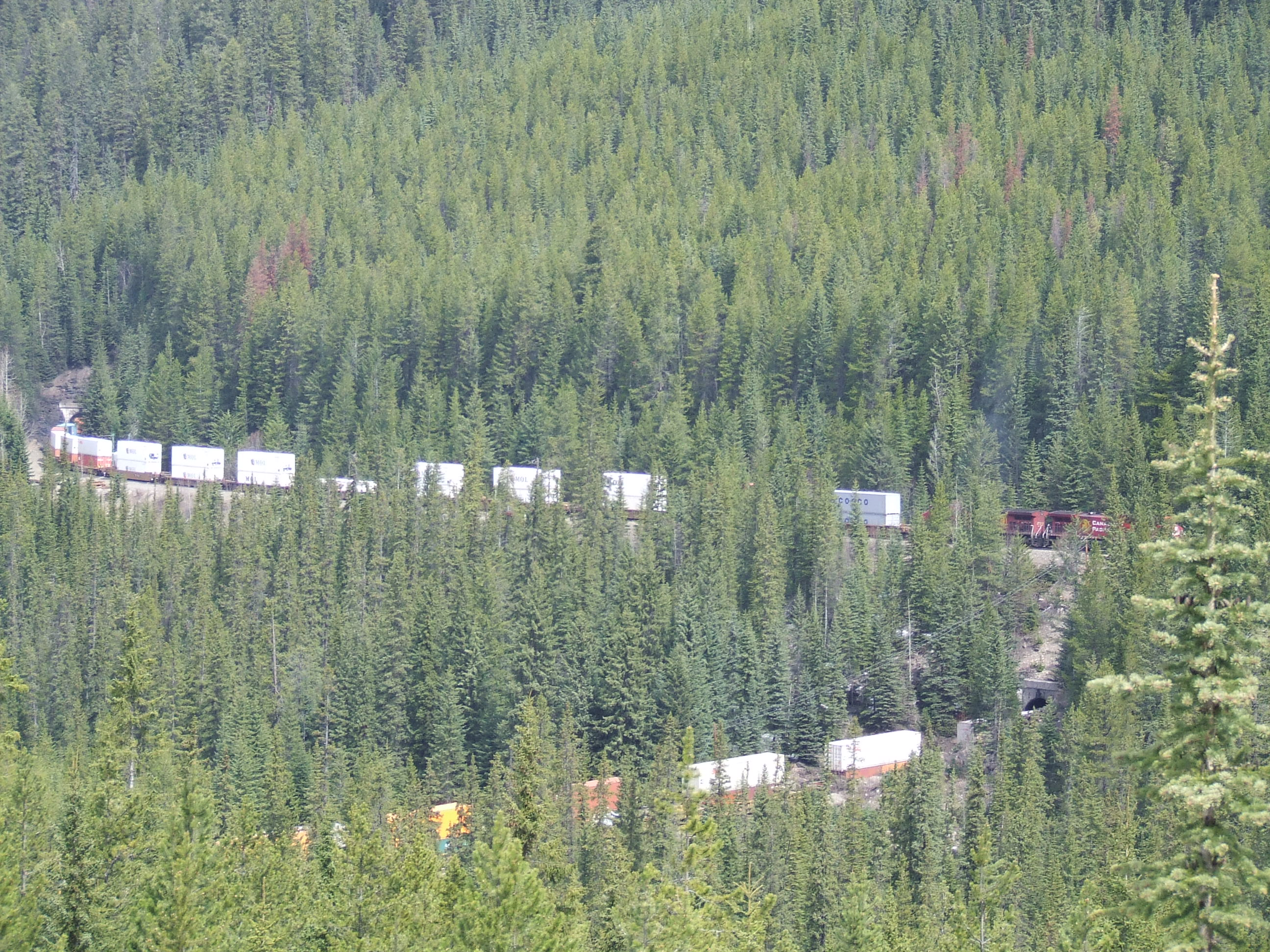 Spiral Tunnels, part of Big Hill, and just west of Kicking Horse Pass